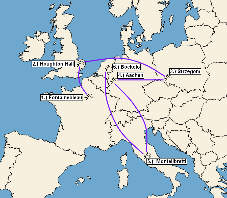 Events of the 2012 Eventing Nations Cup